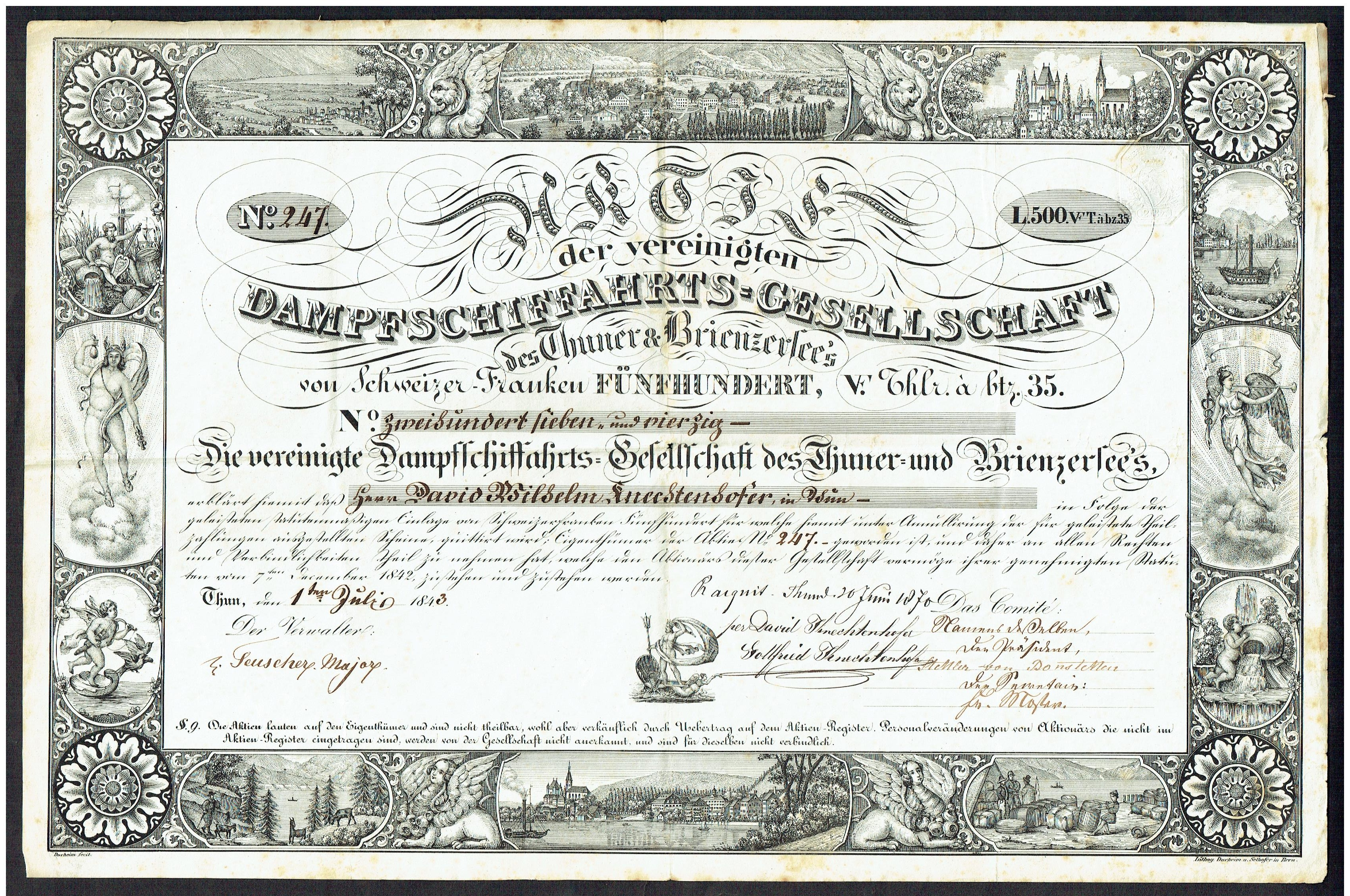 Share of the Vereinigte Dampfschiffahrts-Gesellschaft des Thuner- und Brienzersee's, issued 1. July 1843